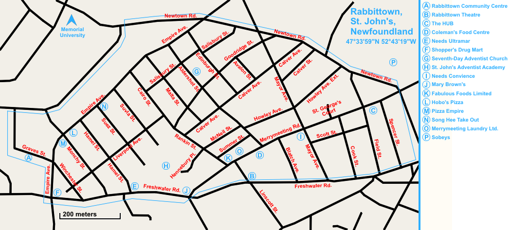 A map of the neighbourhood in St. John's, Newfoundland called Rabbittown